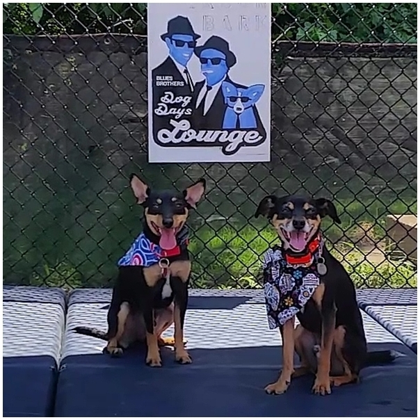 The Blues Brother's Dog Days Lounge inspired by contemporary artist George Rodrigue